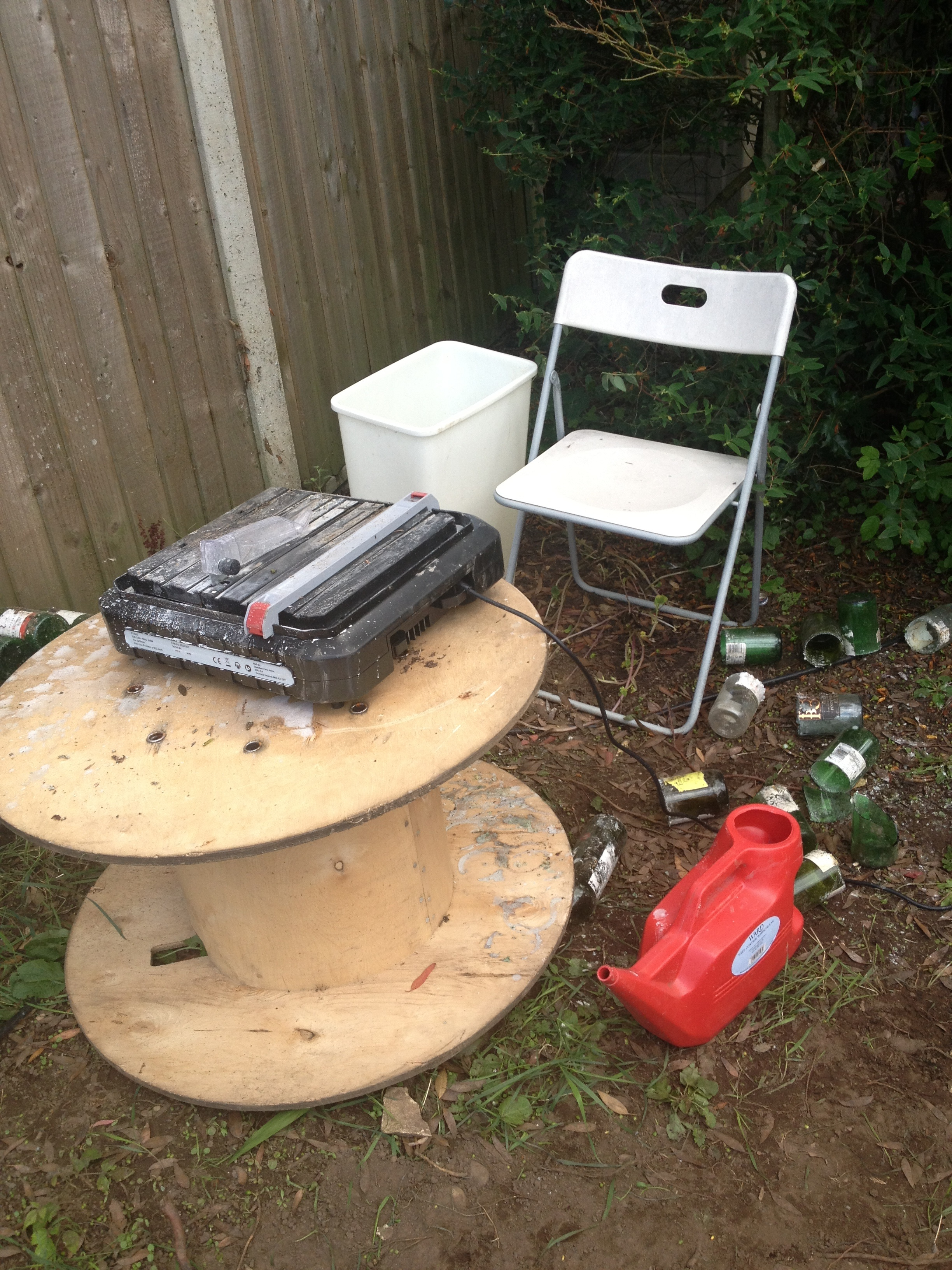 Building a bottle wall, the first step is to cut the bottles to create your bricks